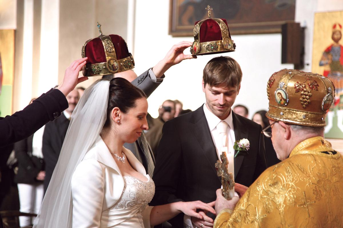 Russian-Orthodox Wedding in the Church of ss. Cyril and Methodius in Prague, Czechia